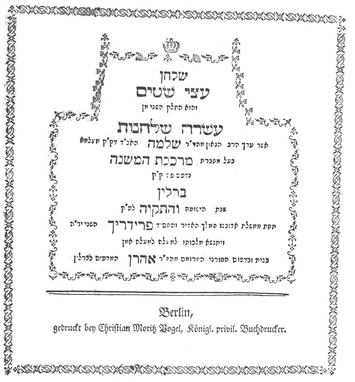 front page of "Shulhan Atzei Shittim", Halakhic work by rabbi Solomon of Cholm. printed Berlin 1762.